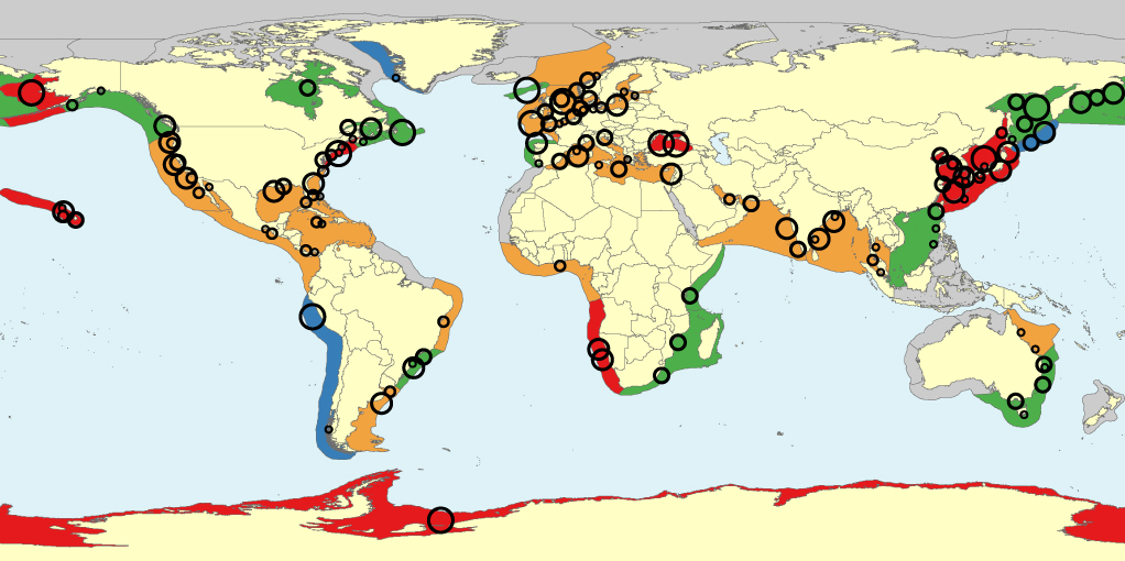 Map of population trends of native and invasive species of jellyfish by LME (Large Marine Ecosystem). Red increase (high certainty), orange increase (low certainty), green stable/variable, blue decrease, grey no data. Circles represent discrete chronicles with relative sizes reflecting the Confidence Index. Circle locations are approximate, as some were shifted to avoid overlap; the circle for the Antarctic LME summarizes circumpolar observations.